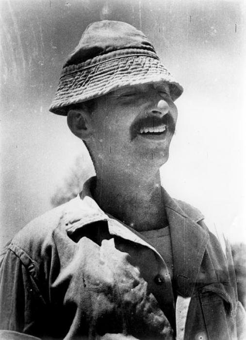 Ein Hahoresh, Econimy of Israel